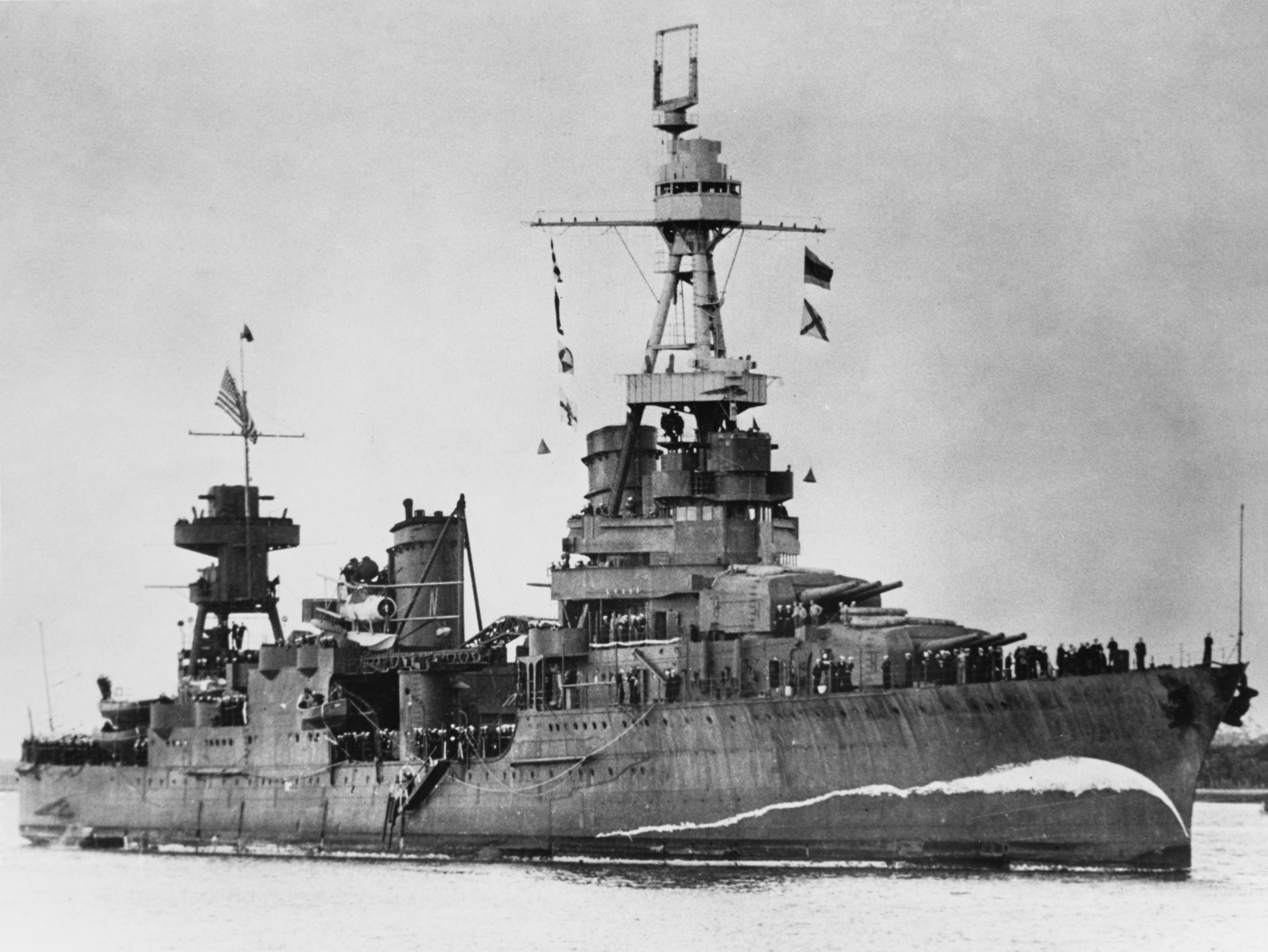 The U.S. heavy cruiser USS Northampton (CA-26) at Brisbane, Australia, on 5 August 1941. Note her false bow wave Camouflage Measure 5 on Camouflage Measure 1. She carries one of the early CXAM radars on her mainmast.